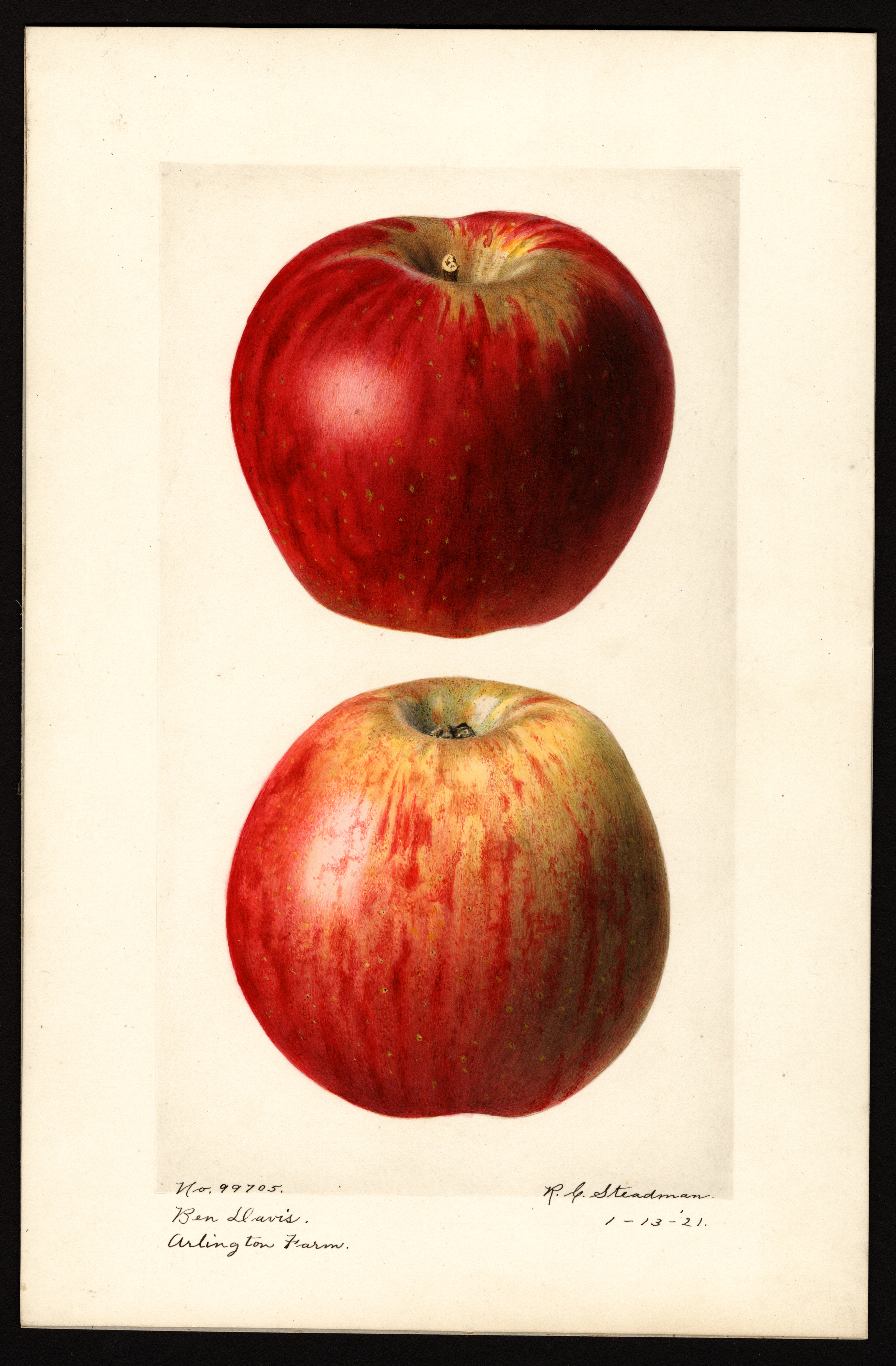 Image of the Ben Davis variety of apples (scientific name: Malus domestica), with this specimen originating in Rosslyn, Arlington County, Virginia, United States. Source: U.S. Department of Agriculture Pomological Watercolor Collection. Rare and Special Collections, National Agricultural Library, Beltsville, MD 20705.